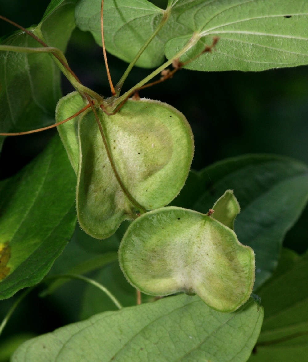 Fruits of Dioscorea caucasica, Brno Arboretum, Czech Republic